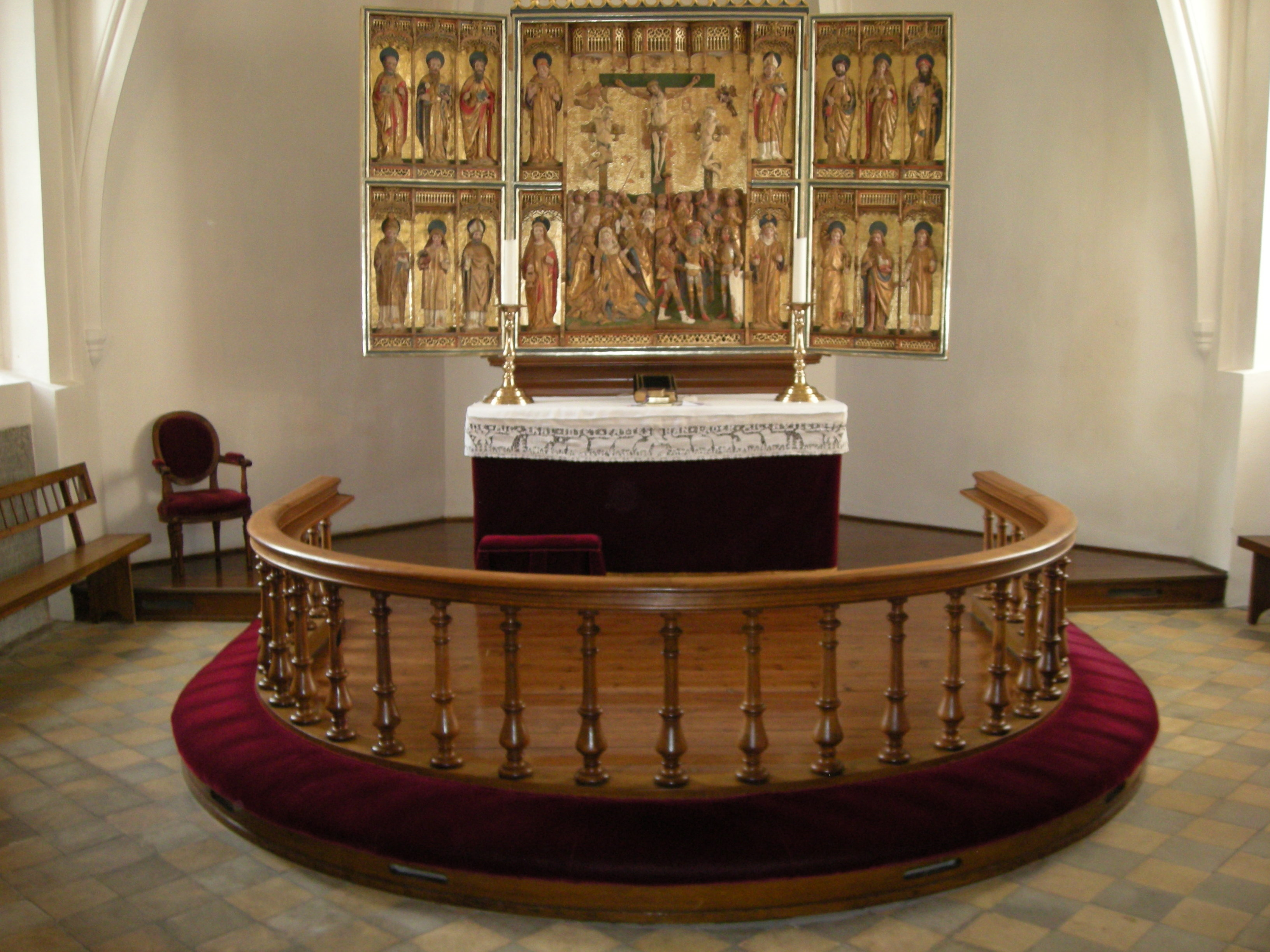 The altar in Halsted Church, Municipality of Lolland, Region Sealand, Denmark.